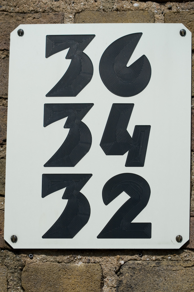 Detail of Amsterdam School social housing project (house number plaquette)